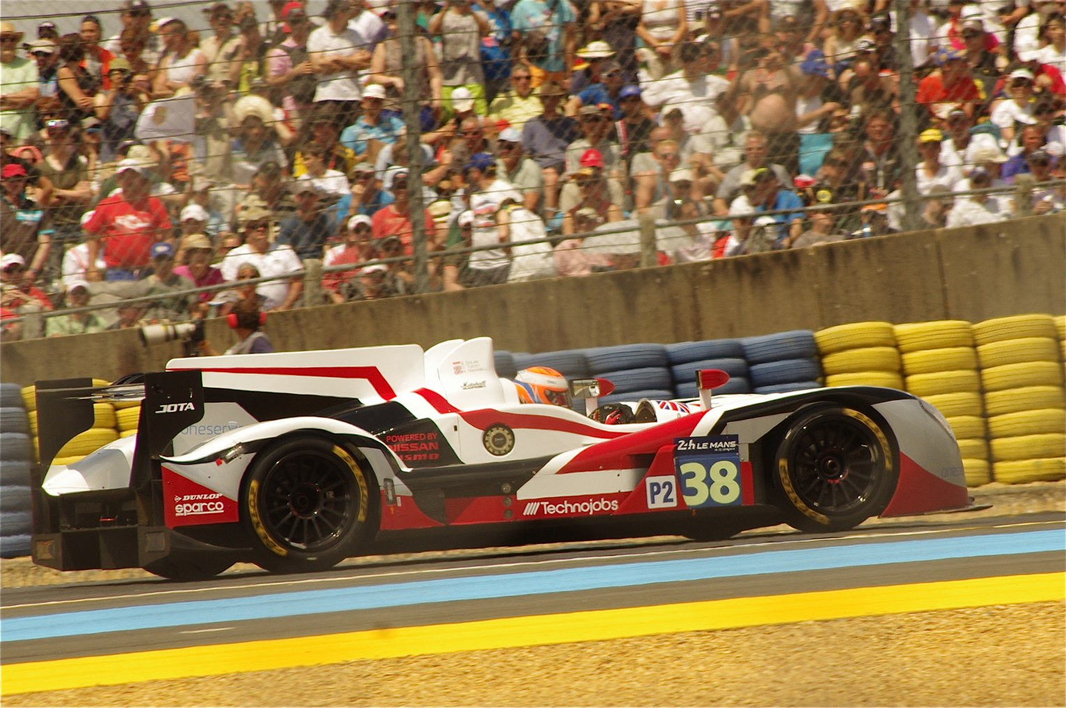 Jota Sport's Zytek Z11SN Nissan Driven by Simon Dolan, Harry Tincknell and Oliver Turvey at the 2014 24 Hours of Le Mans